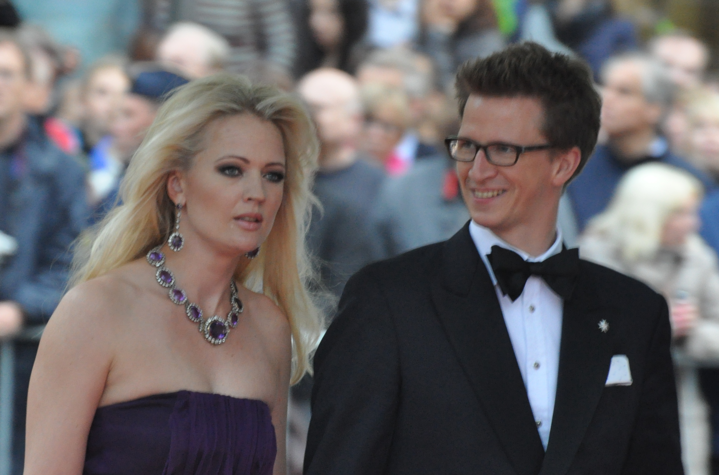 Princess Anna of Bavaria and Prince Manuel of Bavaria, guests at Category:Wedding of Victoria, Crown Princess of Sweden, and Daniel Westling-Riksdags Gala Performance